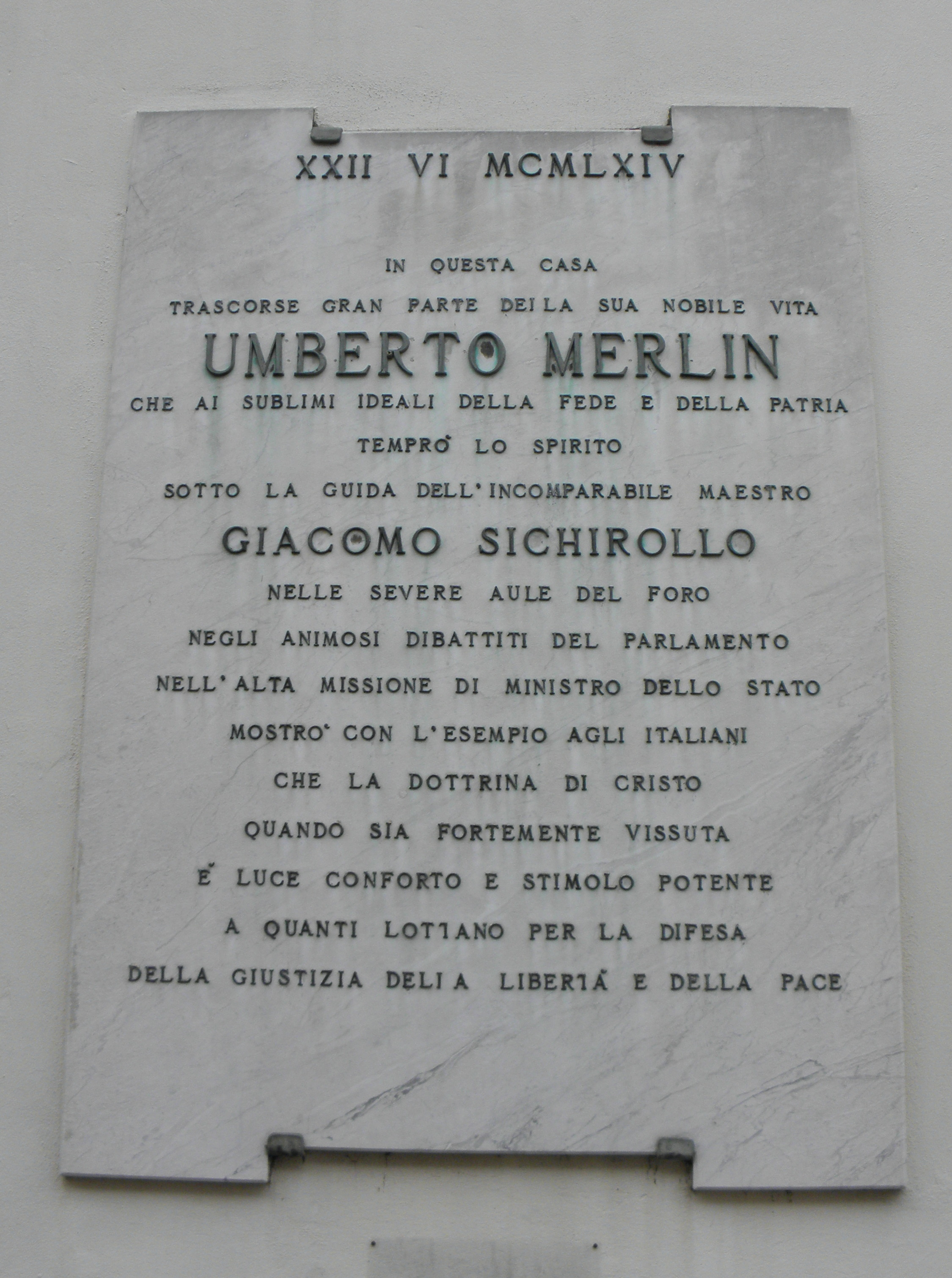 Plaque on Umberto Merlin house in Via Silvestri, Rovigo.